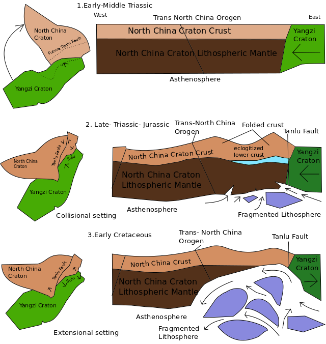 map and cross section for how folding contributed to the lithospheric thinning of the North China Craton